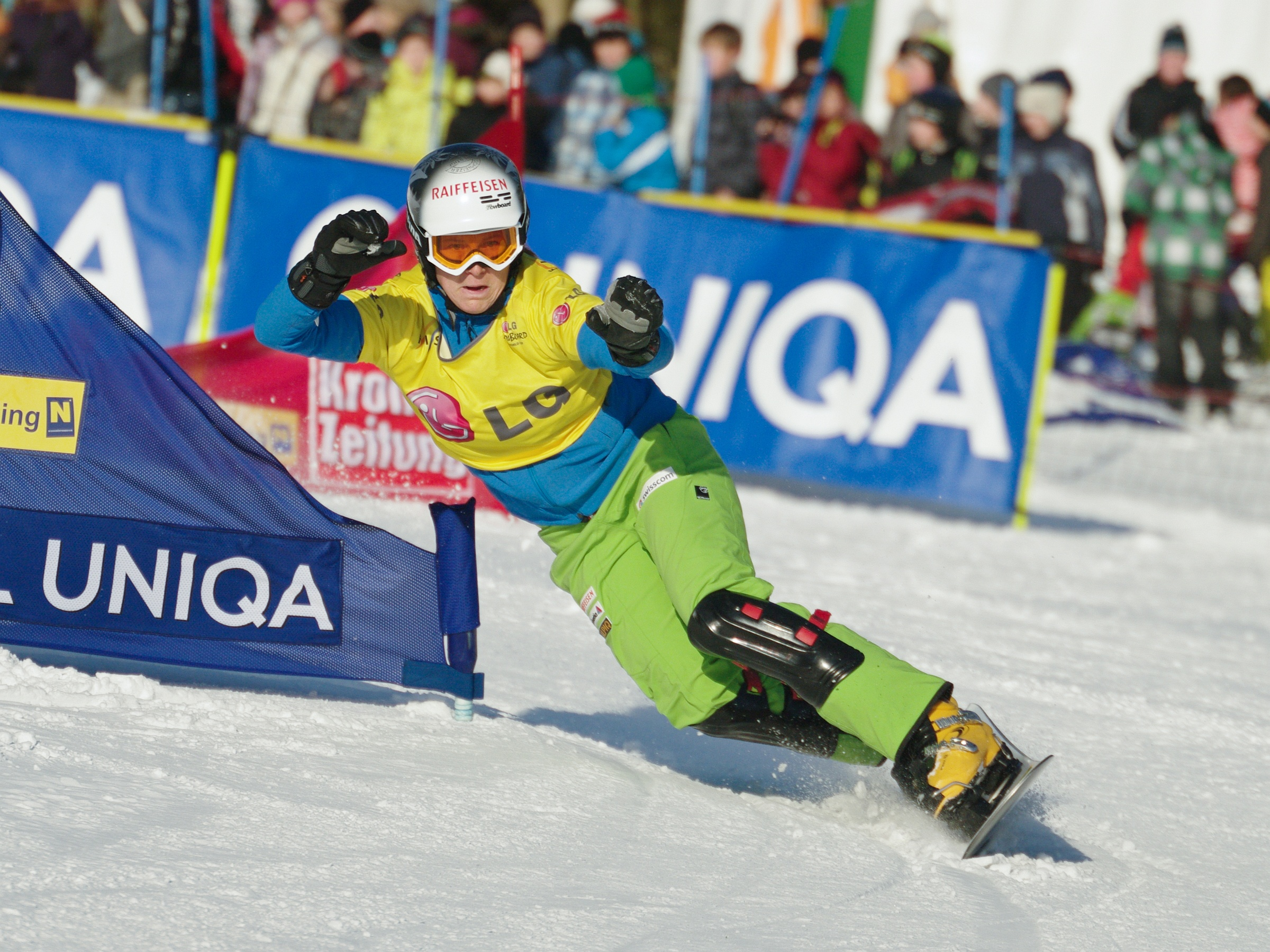 Swiss snowboarder Fränzi Mägert-Kohli in the qualification round of the World Cup Parallel Slalom at the Jauerling in Austria on 13 January 2012.